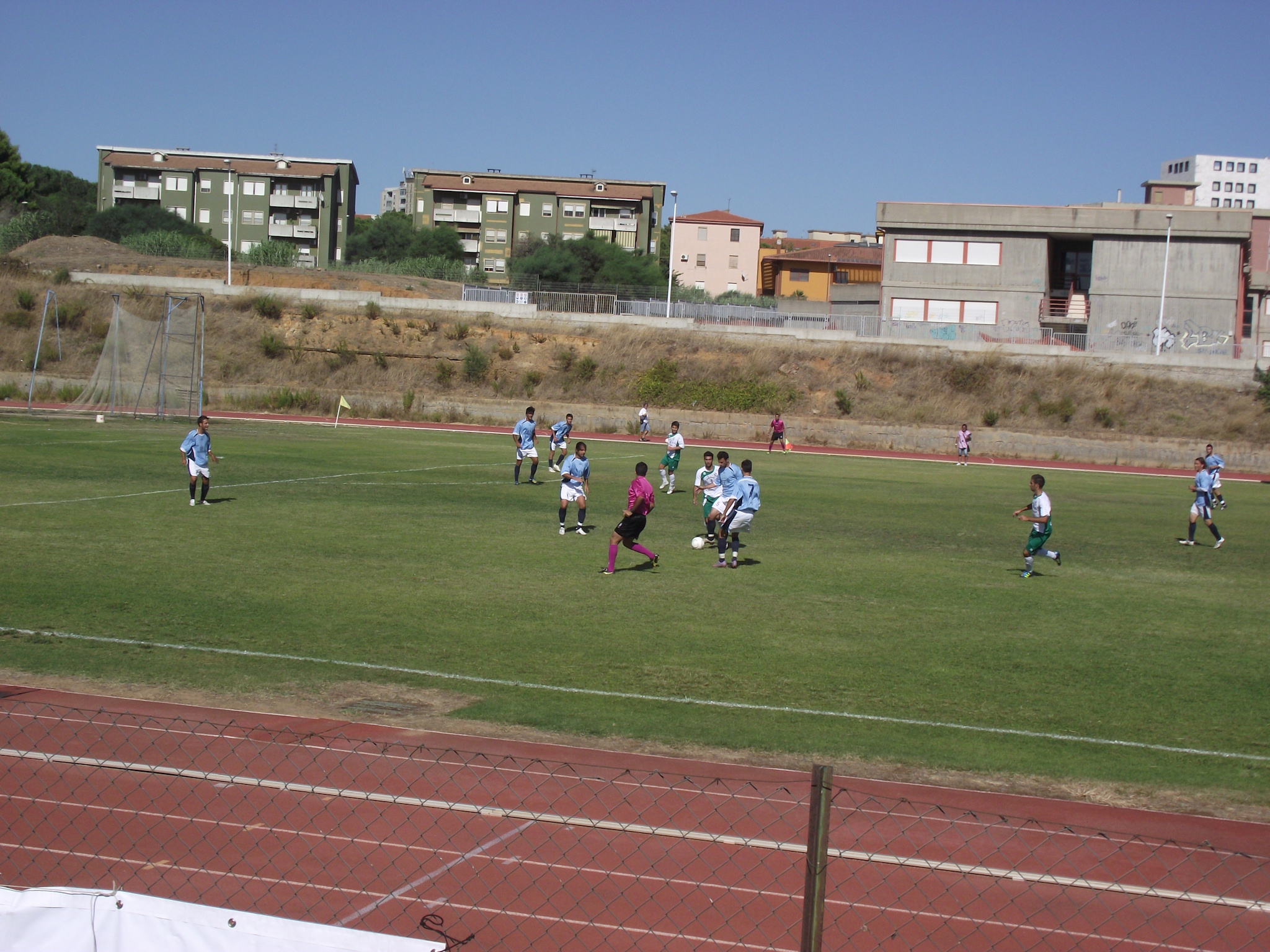 Action during the football match between Carbonia and Castiadas (ended 1-1), for the first round of the 2011/12 sardinian Eccellenza championship. Photo took at the Giuseppe Dettori field in Carbonia, Sardinia Italy